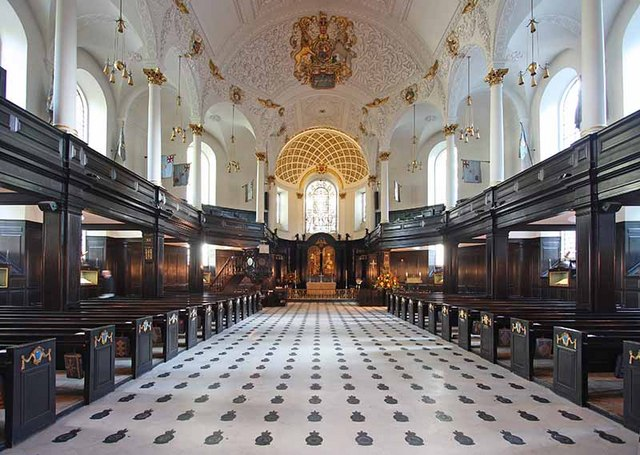 St Clement Danes, Strand, London WC2 - East end